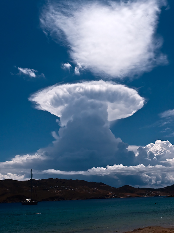 Cumulonimbus incus @ mykonos / Greece - 6/2009